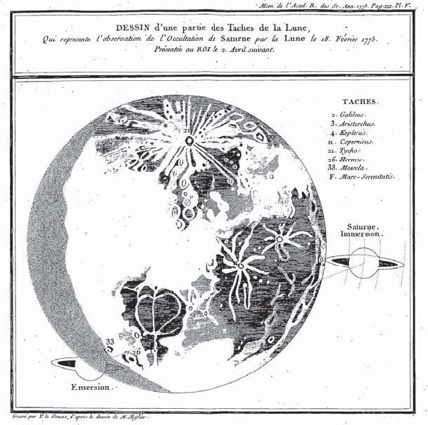 Occultation of Saturn by the Moon on the 18th of February 1775. Drawing by Charles Messier